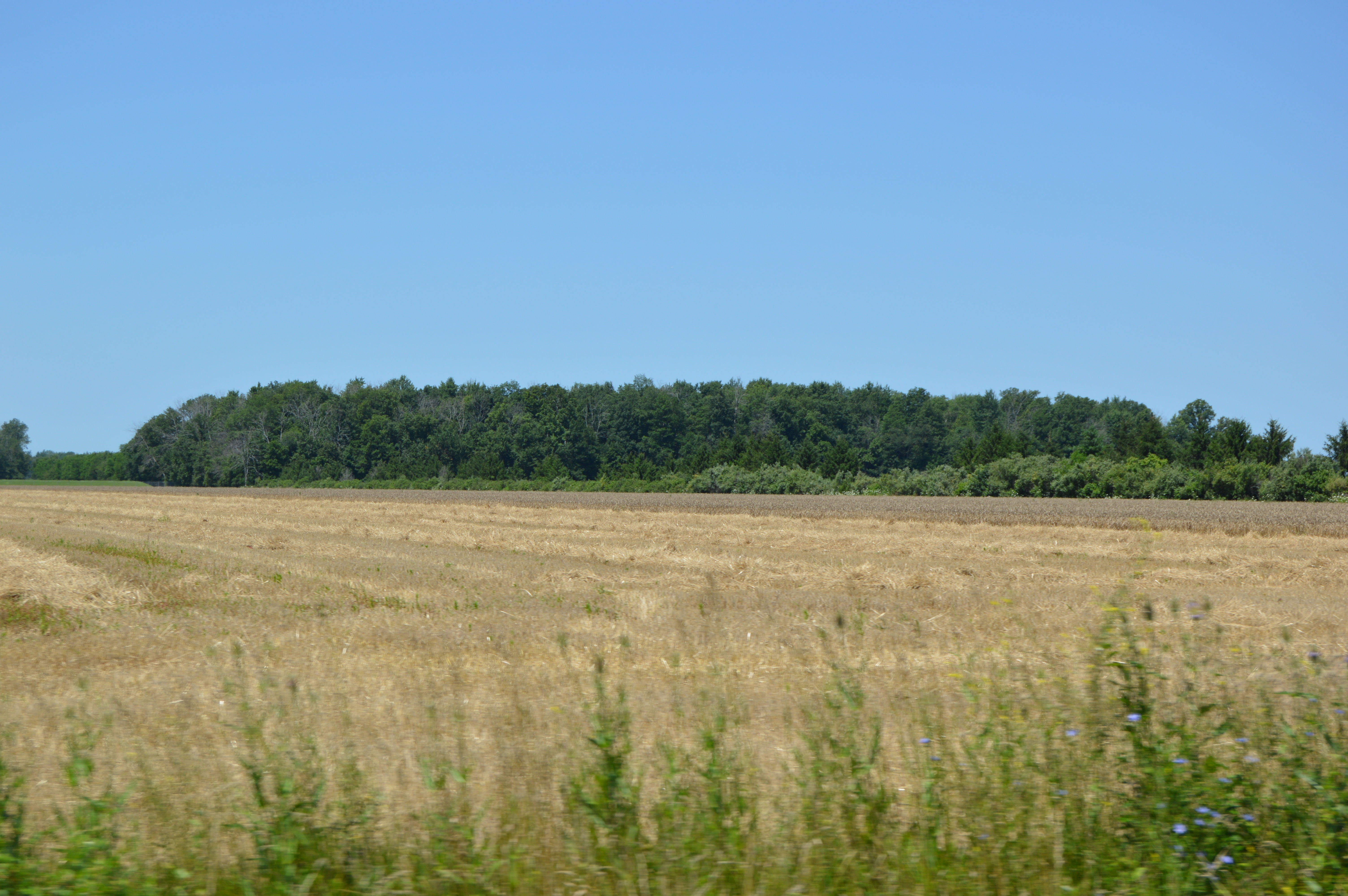 A recently harvested stubble field on the western side of Road 14 just north of Holgate in Flatrock Township, Henry County, Ohio, United States.